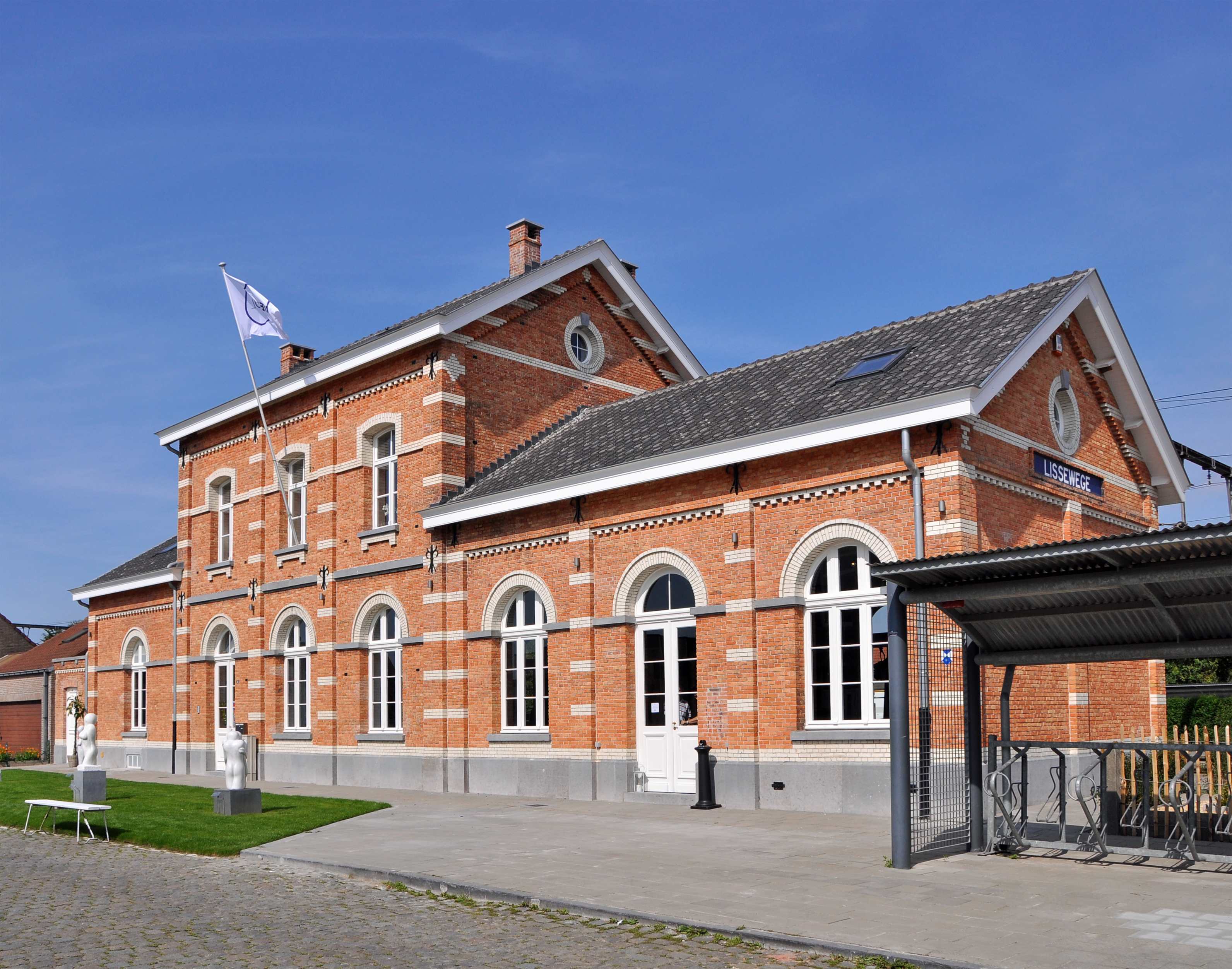 Lissewege (Bruges, Belgium): train station